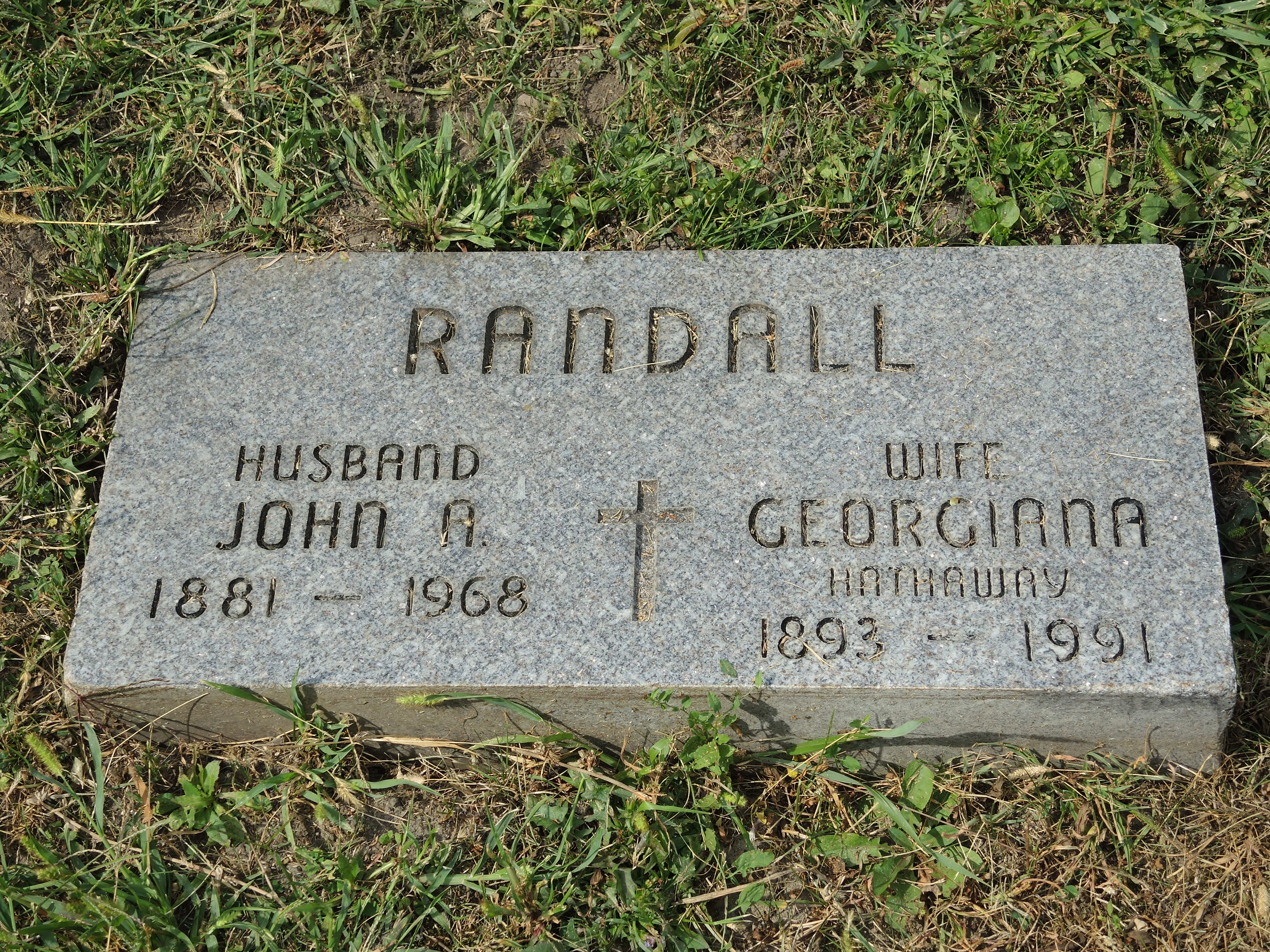 Gravestone of John and Georgiana Randall, located in Sweeney Rural Cemetery in North Tonawanda, New York